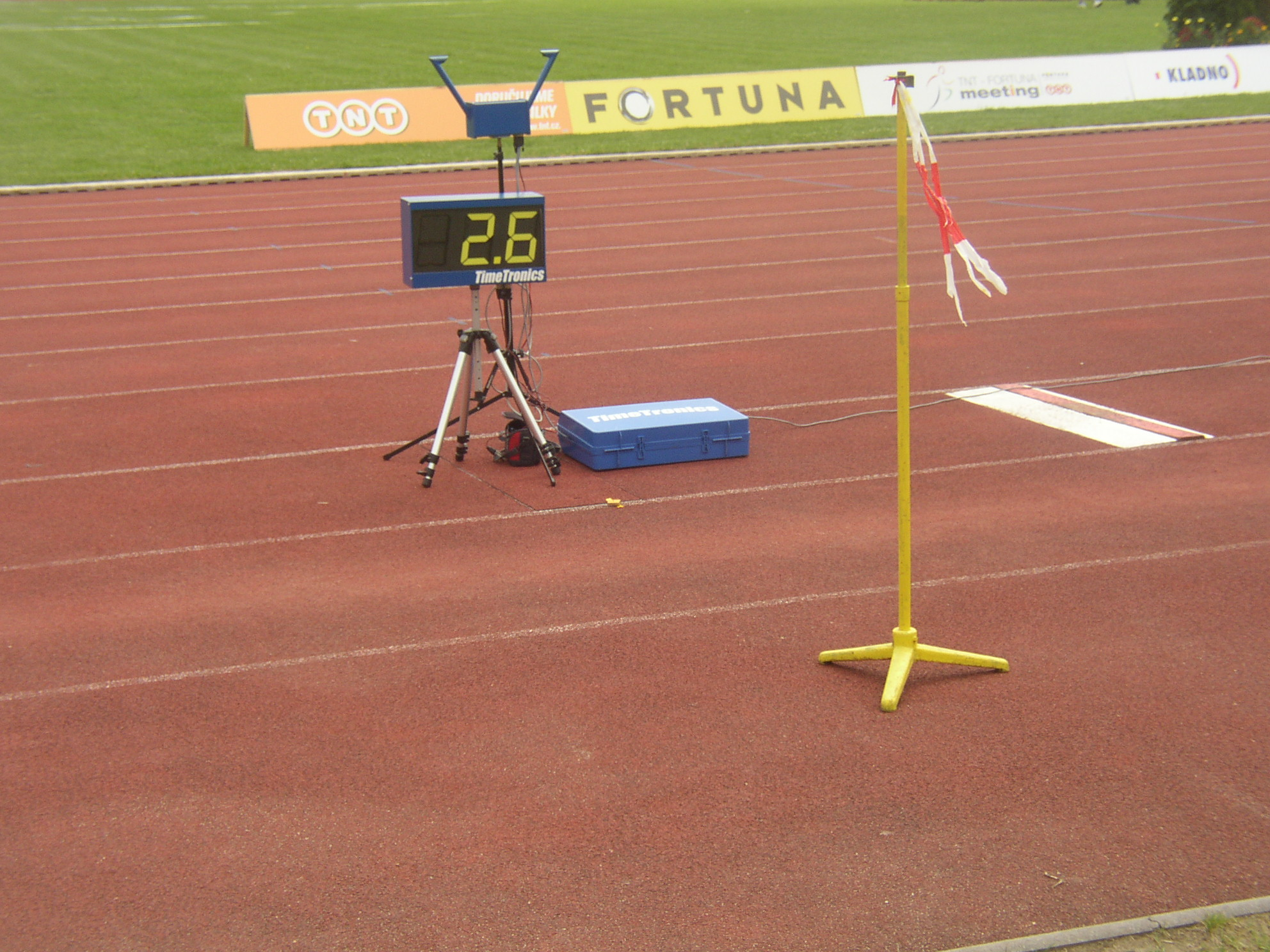 Wind indicator along run-up track in Long jump area. The wind direction indicator is visible in the foreground, the anemometer with display is located bexond the track. The display shows 2.6 m/s tailwind (+). Photo taken in a pause between A and B group of women's long jump for heptathlon at 4th edition of the TNT - Fortuna Meeting (IAAF World Combined Events Challenge Meeting, Sletiště Stadium, Kladno, Czech Republic, 16 June 2010, 12:20).